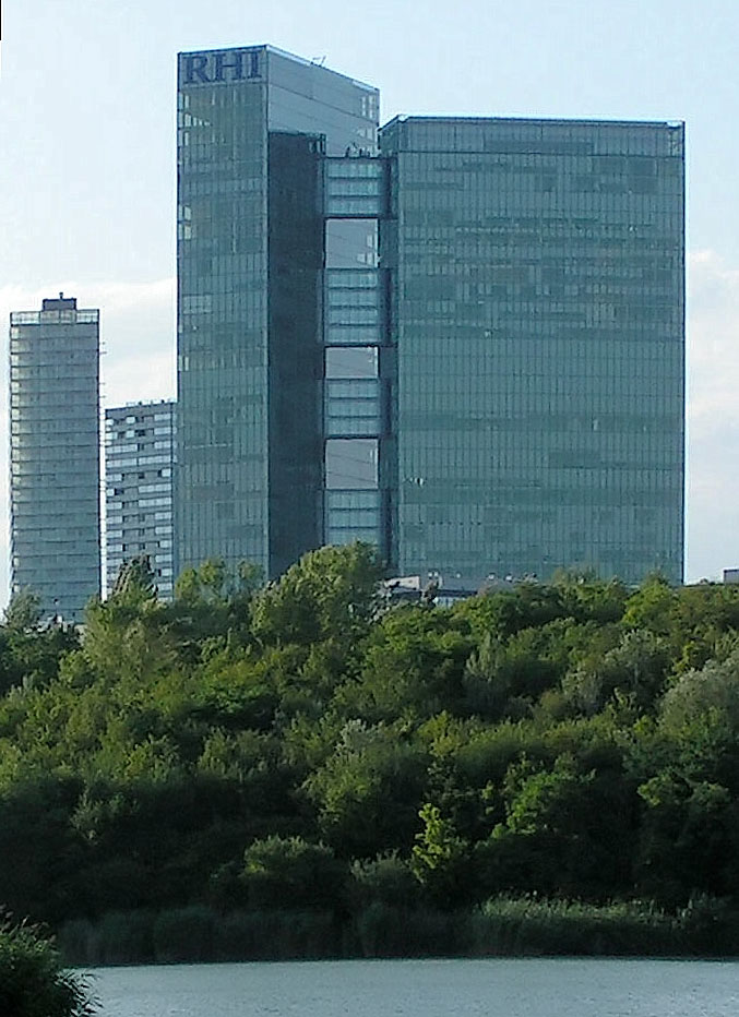 The Vienna Twin Tower, seen from the Wienerbergsee.